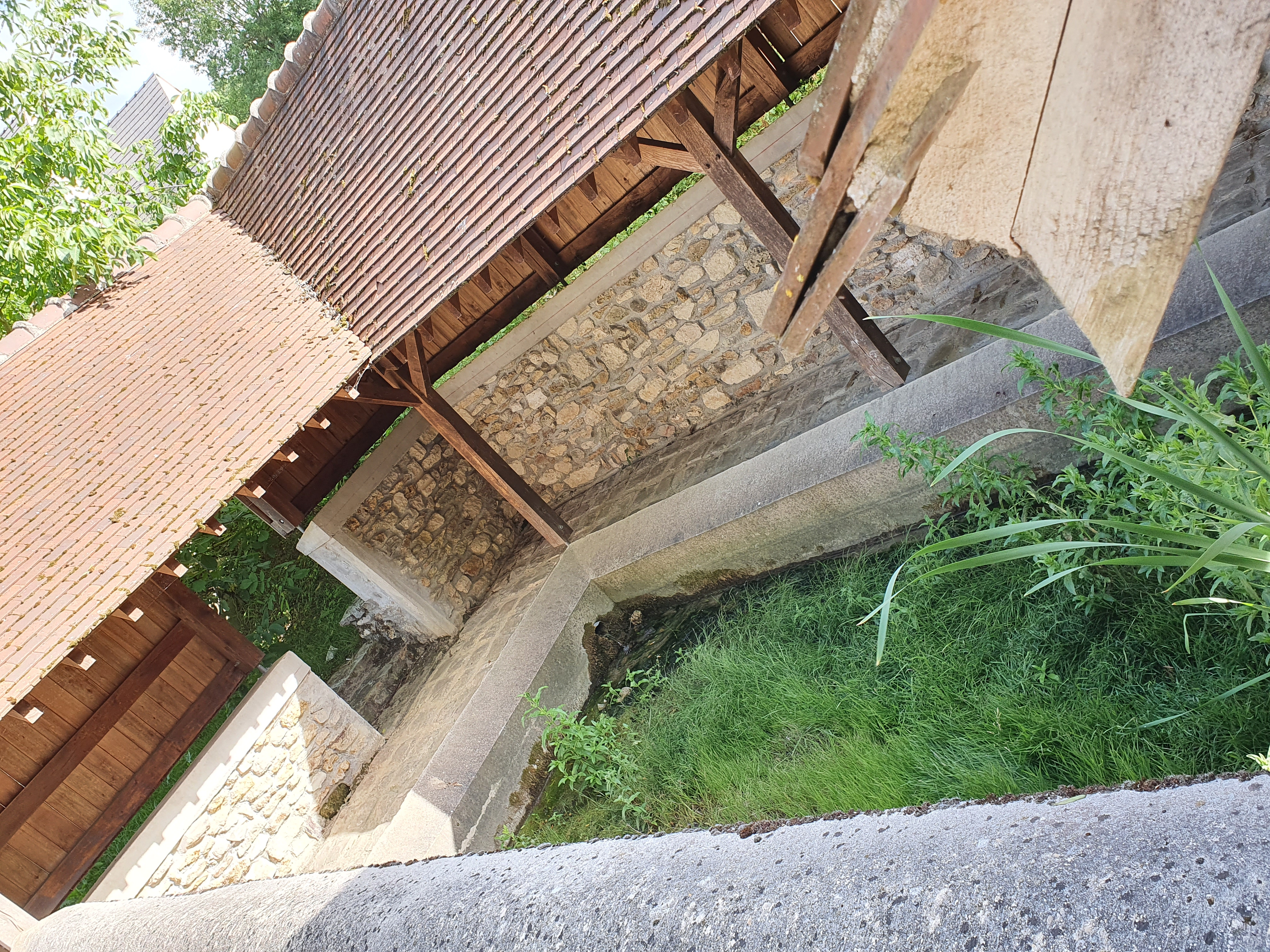 This is one of the old wash houses in Saint-Quentin in Seine-et-Marne, France